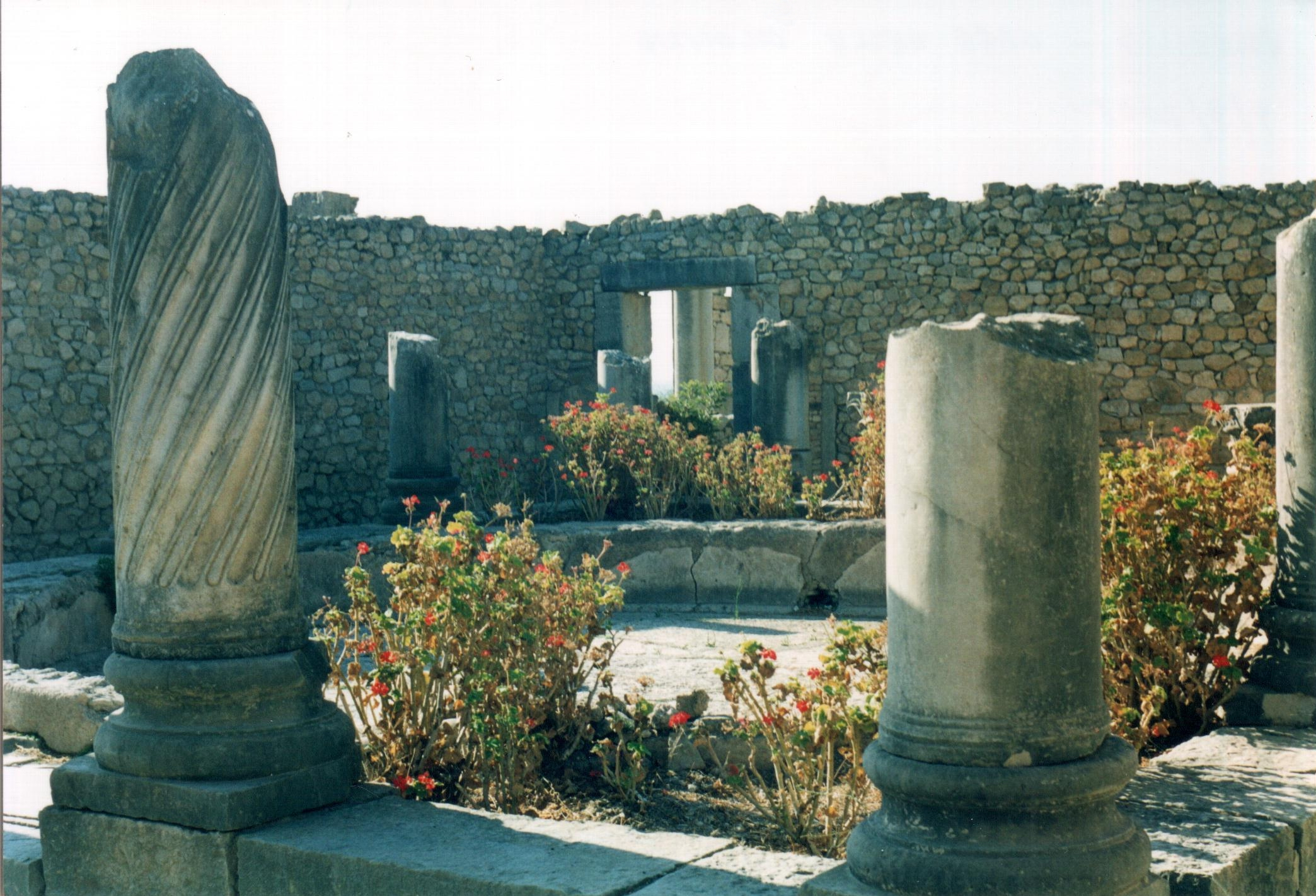 House of columns, Volubilis, Morocco